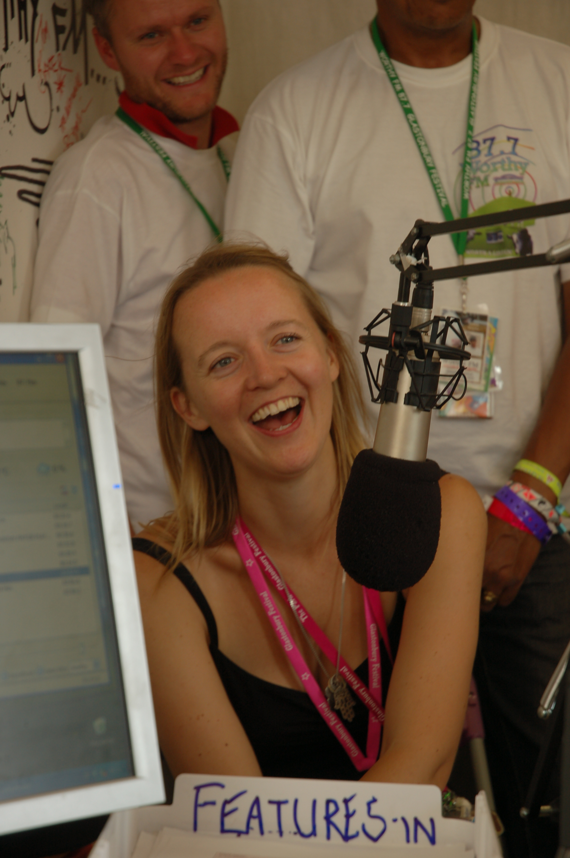 Emily Eavis drops into the Worthy FM studio for a chat